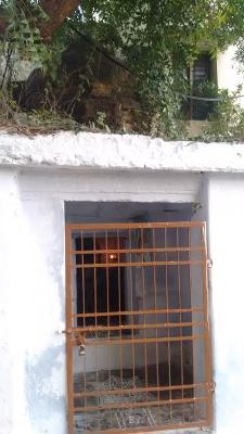 Thanjavurayyankulam anjaneyarteertasanjeevitemple தஞ்சாவூர் அய்யன்குளம்ஆஞ்சநேயர்தீர்த்தசஞ்சீவி கோயில்